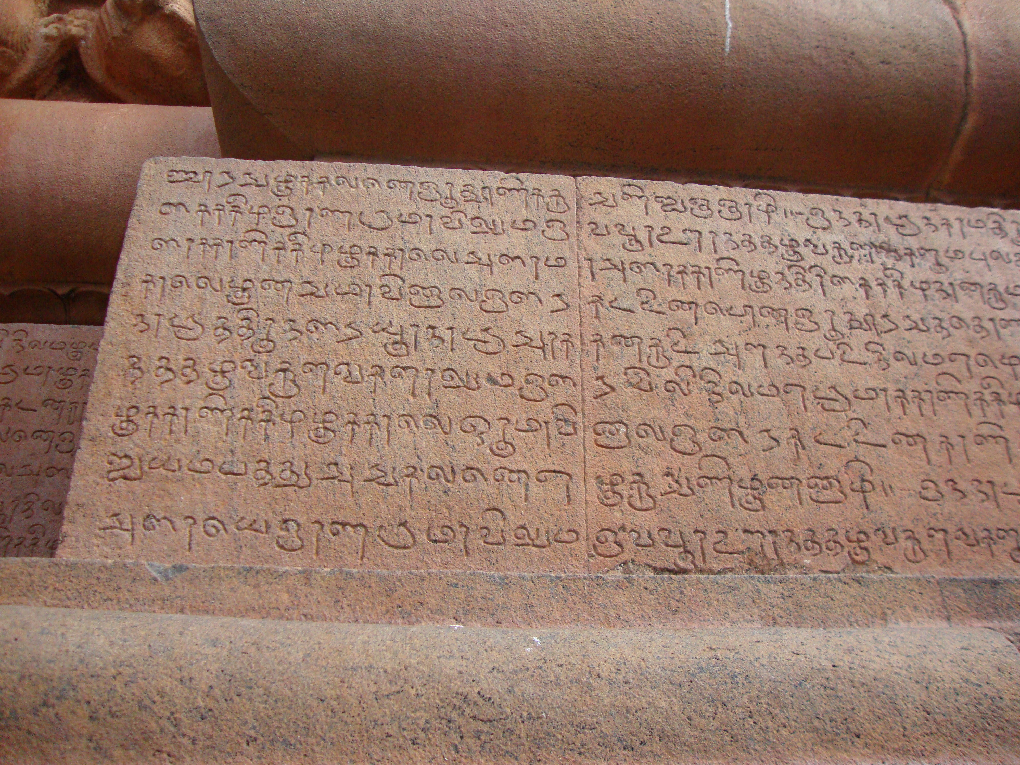 The full history of Raja Raja Chola I, has been carved around the temple walls.